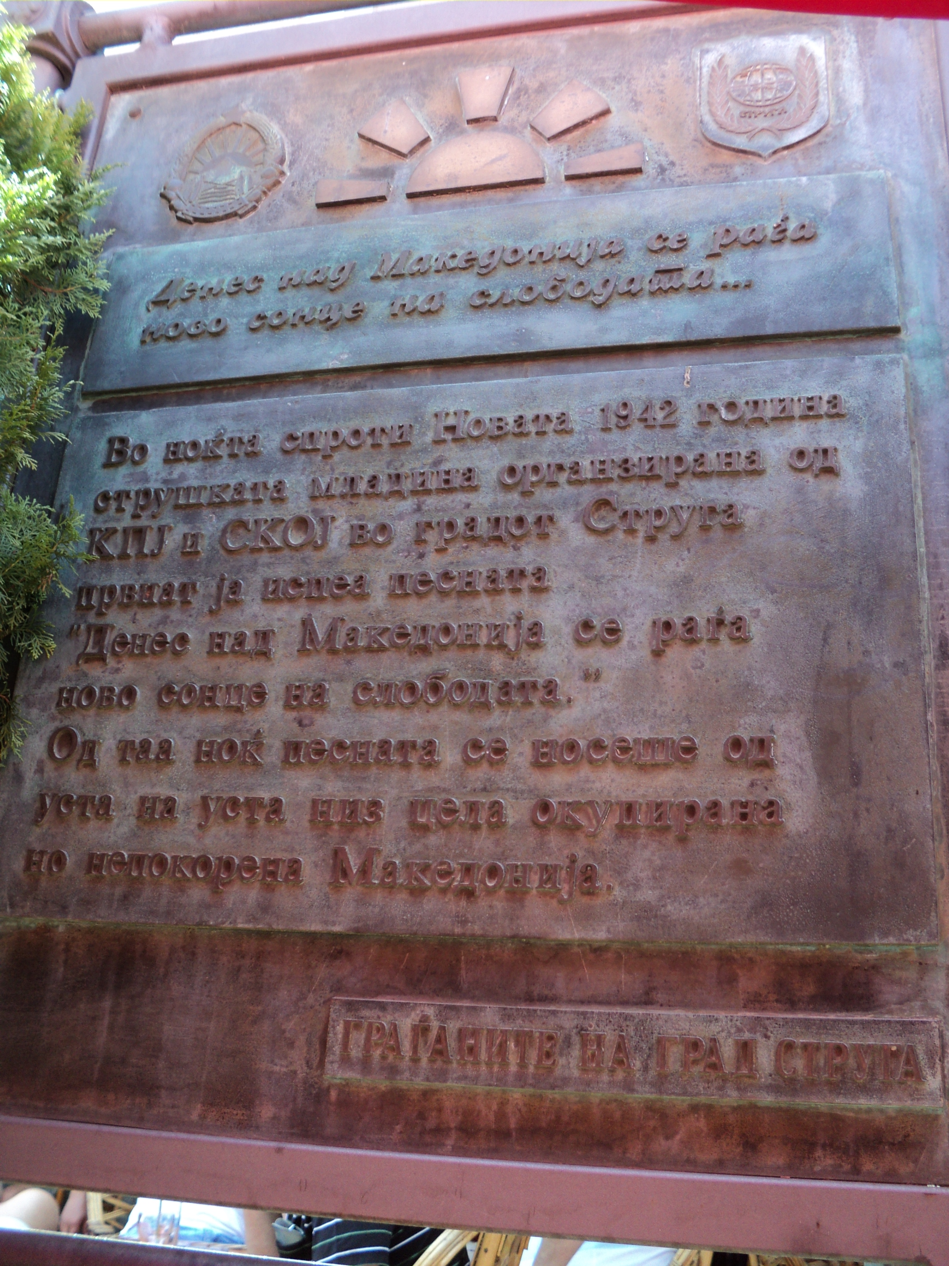 Monument to the Anthem of the Republic of Macedonia in Struga, at the place where it was performed for the first time in 1943.